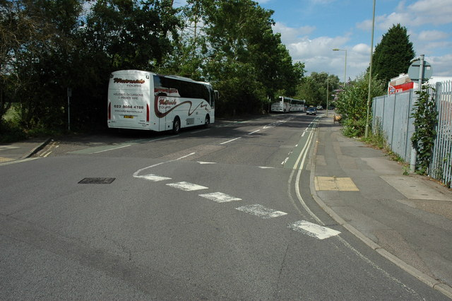 Ferry Hinksey Road Ferry Hinksey Road on the western suburbs of Oxford appears to be a popular short-term parking site for tour coaches.